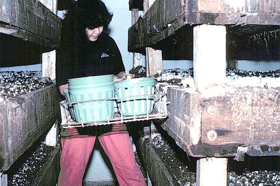 A woman harvests mushrooms growing from vats of manure